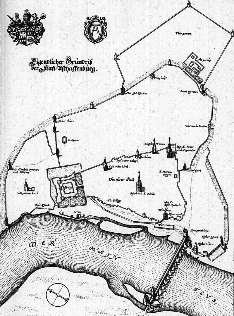 This is a scan of the historical document: Title: Aschaffenburg - Topographia Hassiae language: german